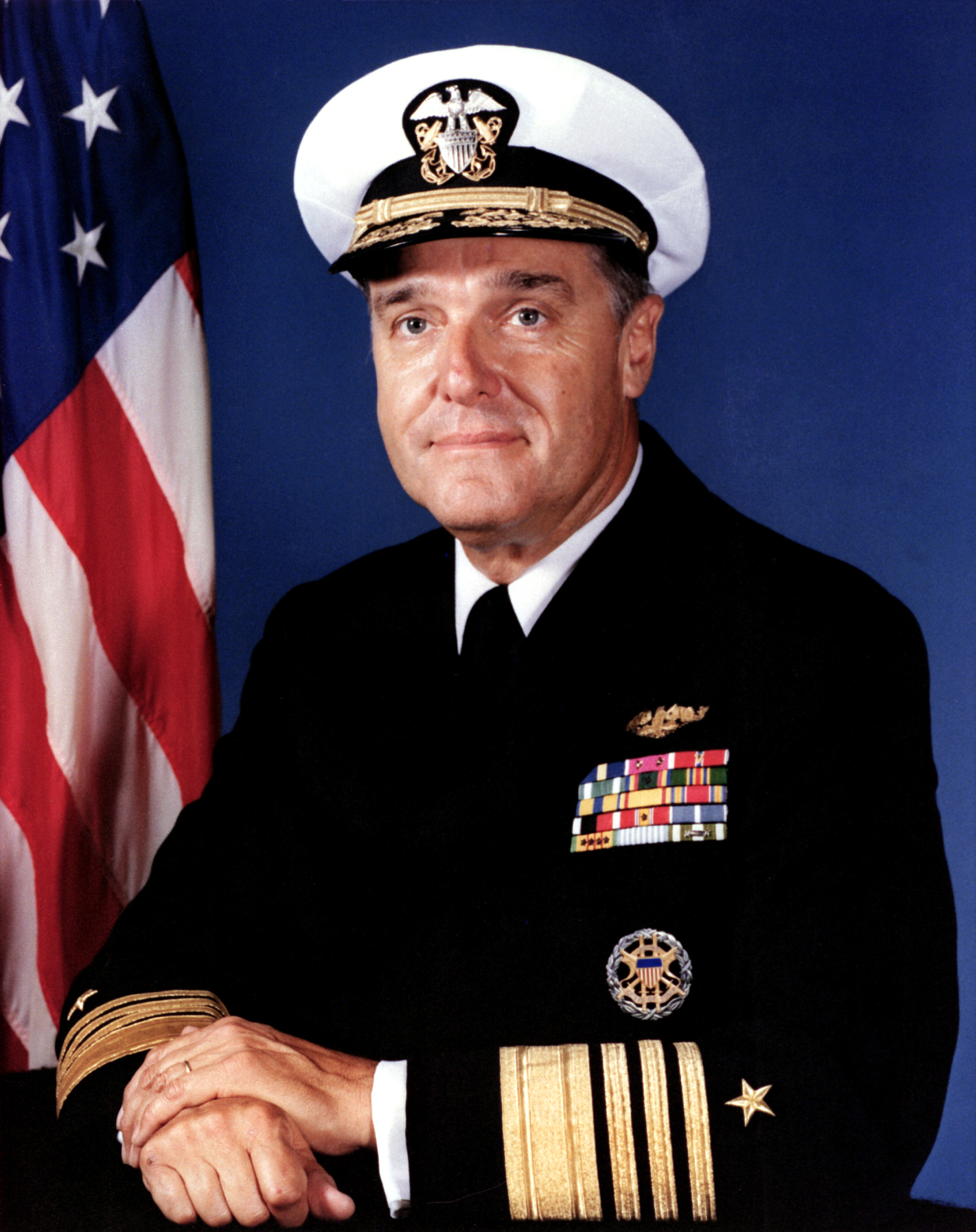 James Watkins, former Chief of Naval Operations.